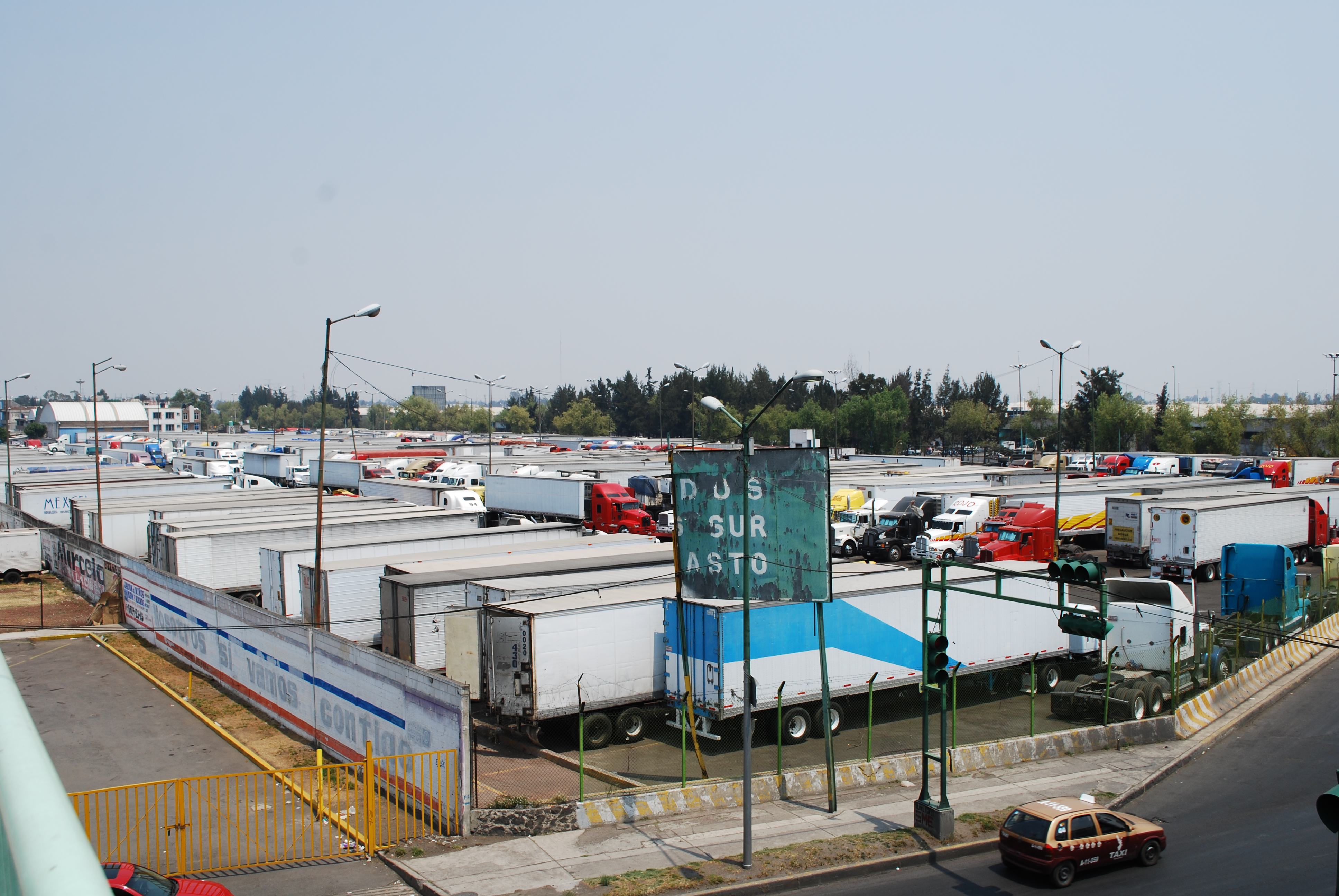 Truck parking at the Central de Abaso, Mexico City